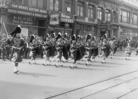 The Black Watch (Royal Highland Regiment) of Canada